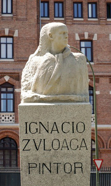 Monument to Ignacio Zuloaga at Jardines de Las Vistillas (a park) in Madrid (Spain). Made by sculptor Juan Cristóbal González and inaugurated on November 19, 1947.